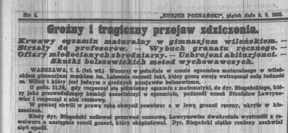 Press clip from the Polish newspaper Kurjer Poznanski 1925-5-8, informing about the Wilno school massacre that occurred at Joachim Lelewel high school in Wilno, Poland (now Vilnius, Lithuania) on May 6, 1925. During the final exams, at least two eighth-grade students attacked the board of examiners with revolvers and hand grenades, killing at least one teacher, several students, and themselves.